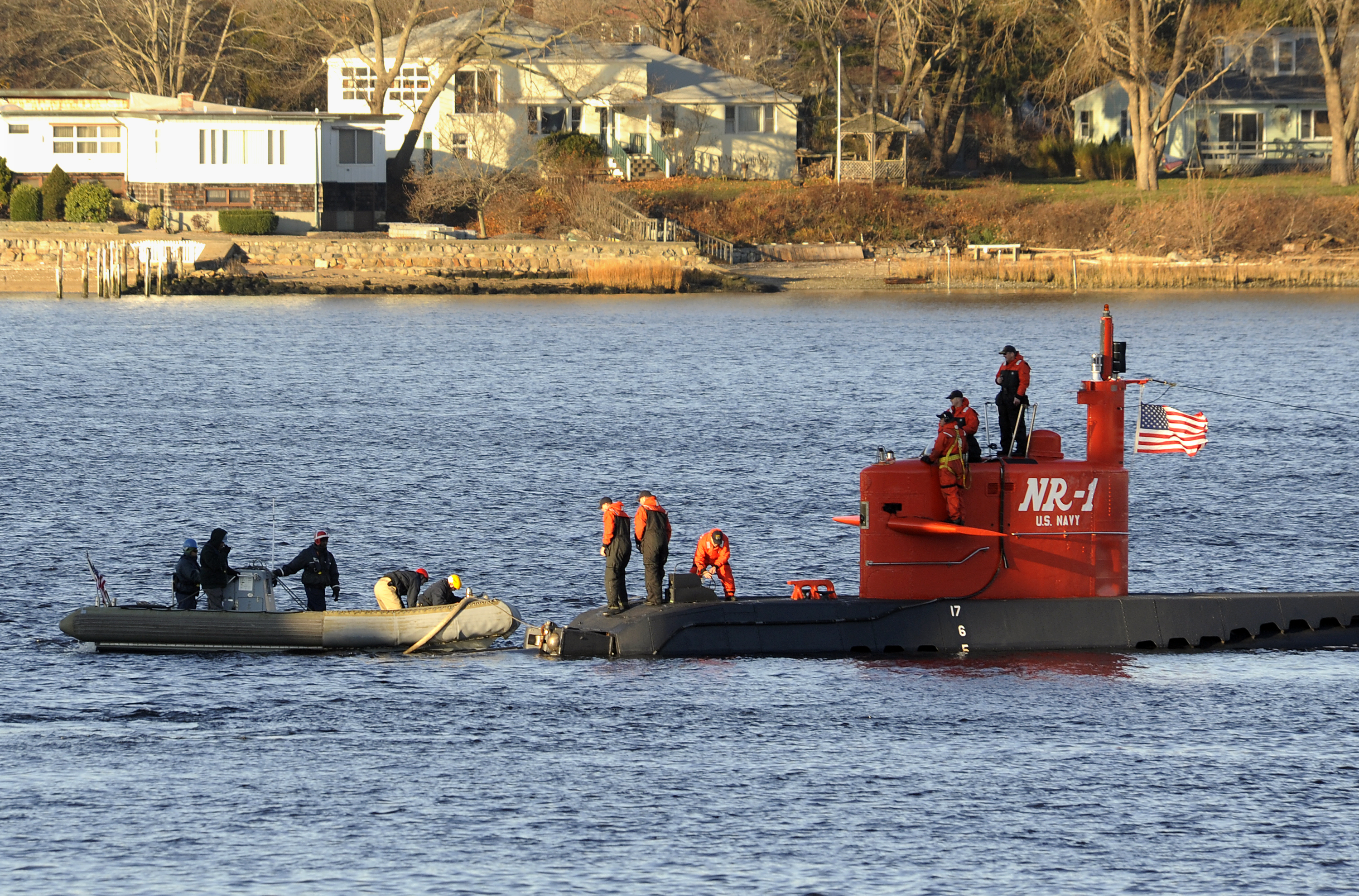 GROTON, Conn. (Dec. 12, 2008) Crew members assigned to the Military Sealift Command rescue and salvage ship USNS Grasp (T-ARS 51) hook a towing line to submarine NR-1 as the boat makes its way along the Thames River in Groton for the final time. The oldest nuclear-powered submarine in the U.S. Navy, NR-1, is being retired after nearly 40 years of service. U.S. Navy photo by John Narewski (Released)